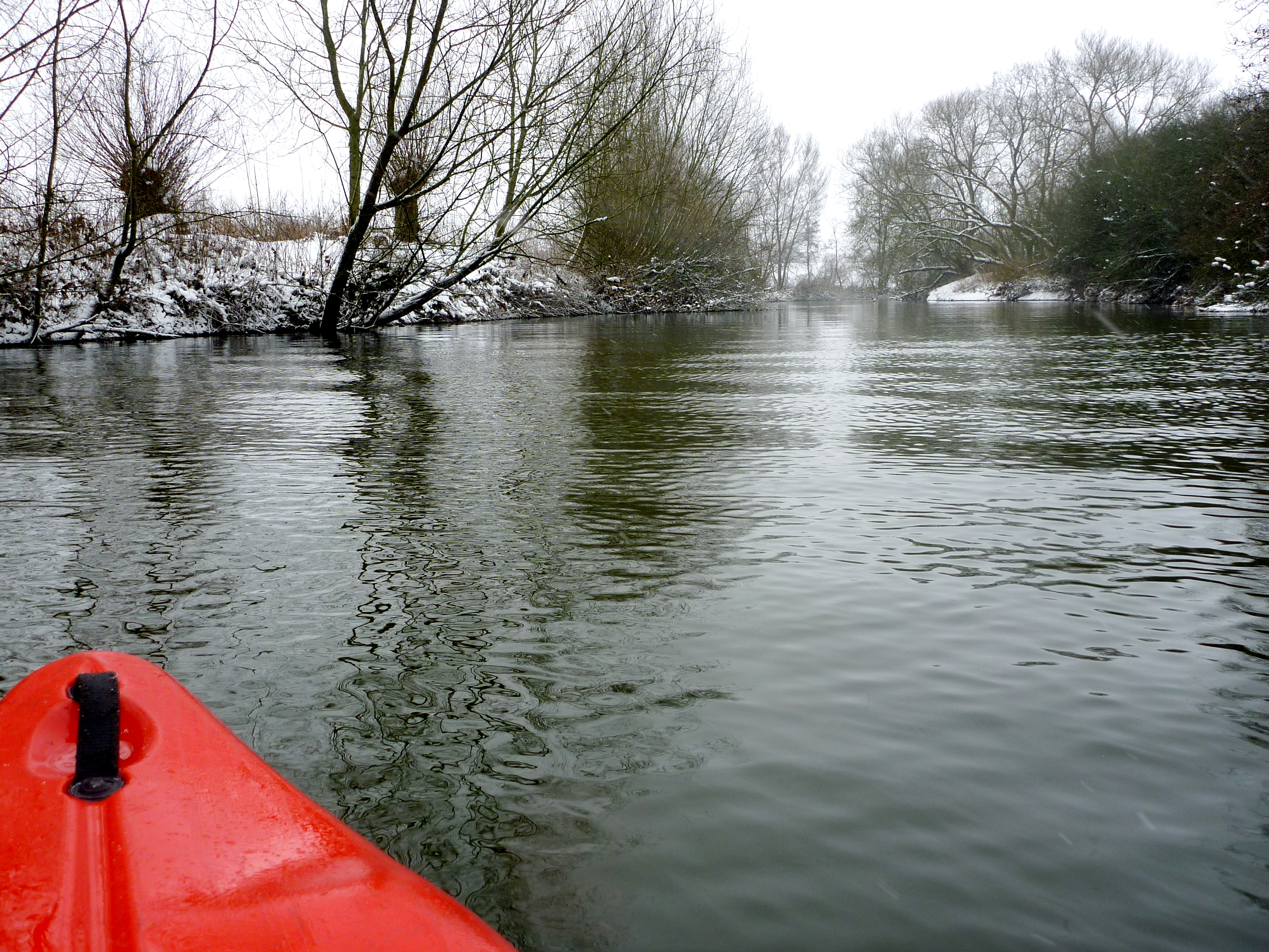 River Werse near Pleistermühle in January 2010